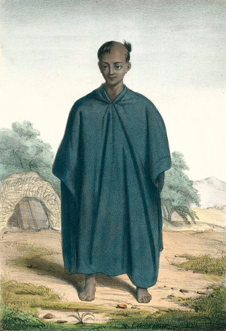 Young Moor Darmenkour